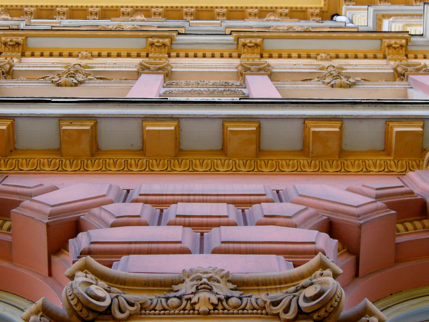 Eteläesplanadi 24 (Erottajankatu 19), western facade, downtown Helsinki, Finland; time: Oct, 8th, 2008, slightly before high noon day light saving time (UTC +3 hrs)